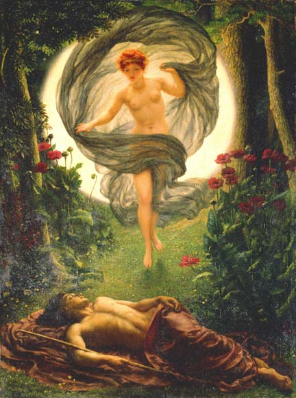 Selene and Endymion